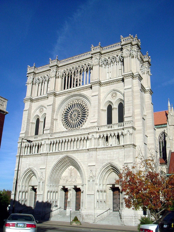 St. Mary's Cathedral Basilica of the Assumption, Covington, Kentucky.